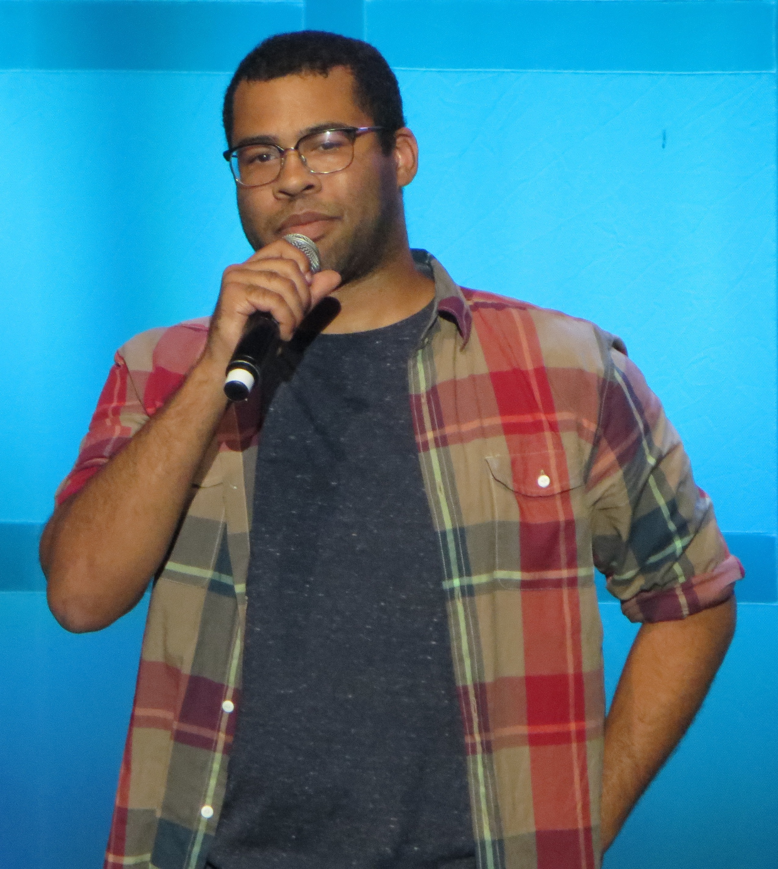 Peele of Key and Peele live in concert at Wild 94.9 Shoreline Comedy Jam 2012